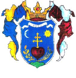 Coat of arms of Váncsod, Hungary